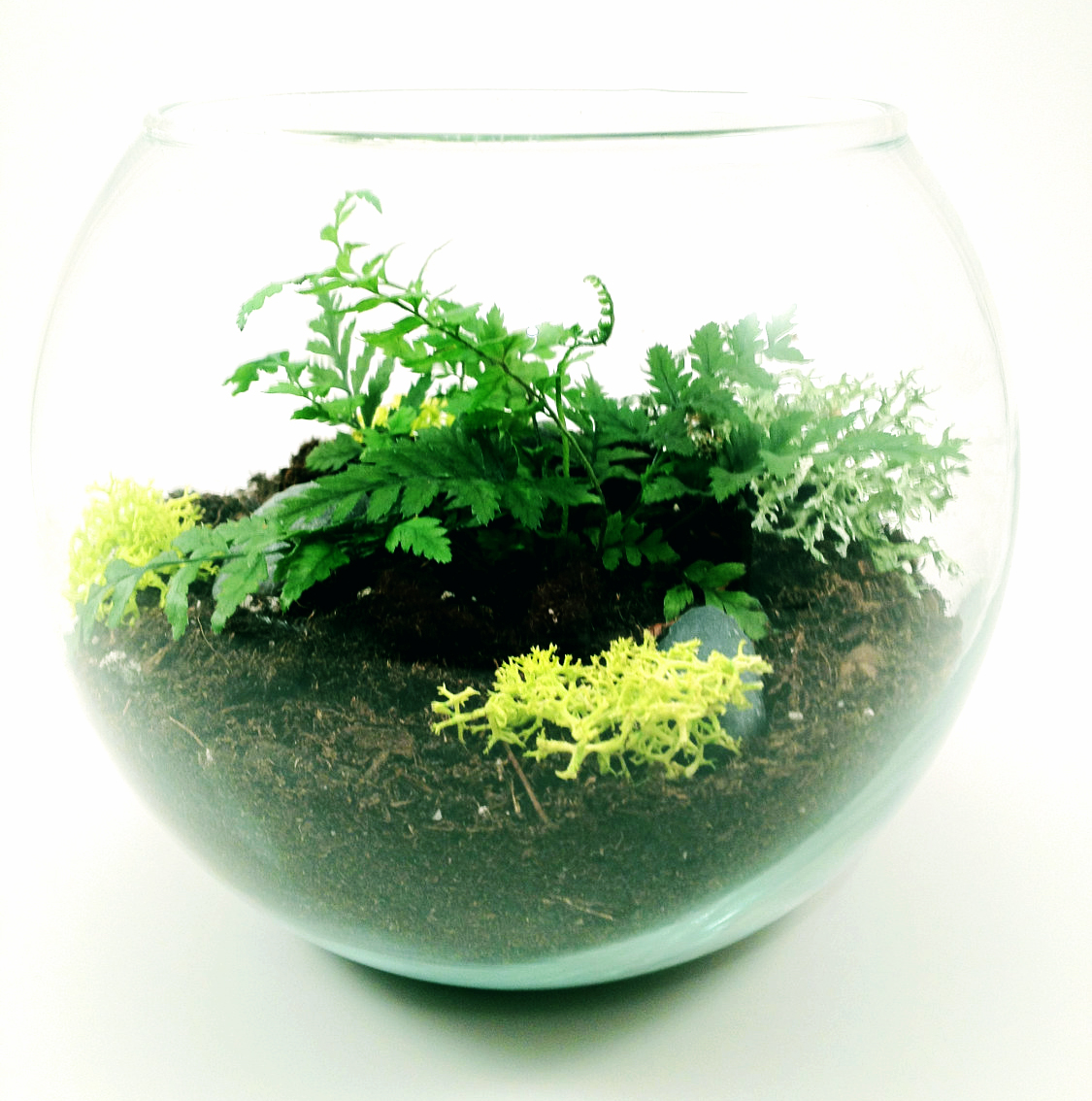 The glass ball terrarium